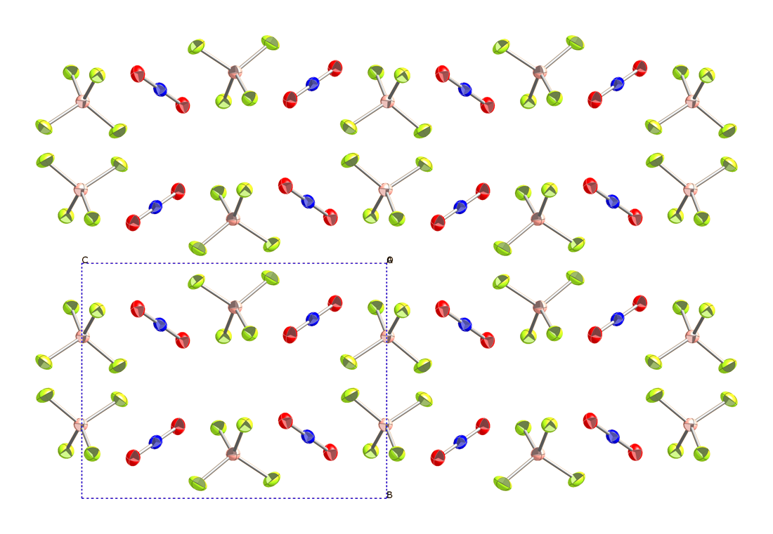 Thermal ellipsoid model of part of the crystal structure of nitronium tetrafluoroborate, [NO2][BF4]. The thermal ellipsoids are drawn at the 50% probability level. X-ray crystallographic data from Acta Cryst. (2007). E63, i43-i44. Model constructed and image generated in CrystalMaker 8.1.